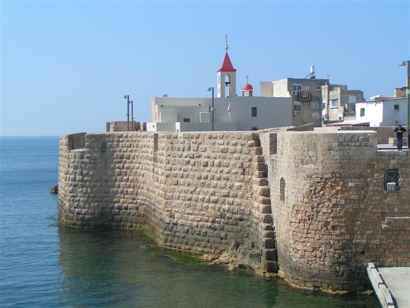 Akko - Walls & Church